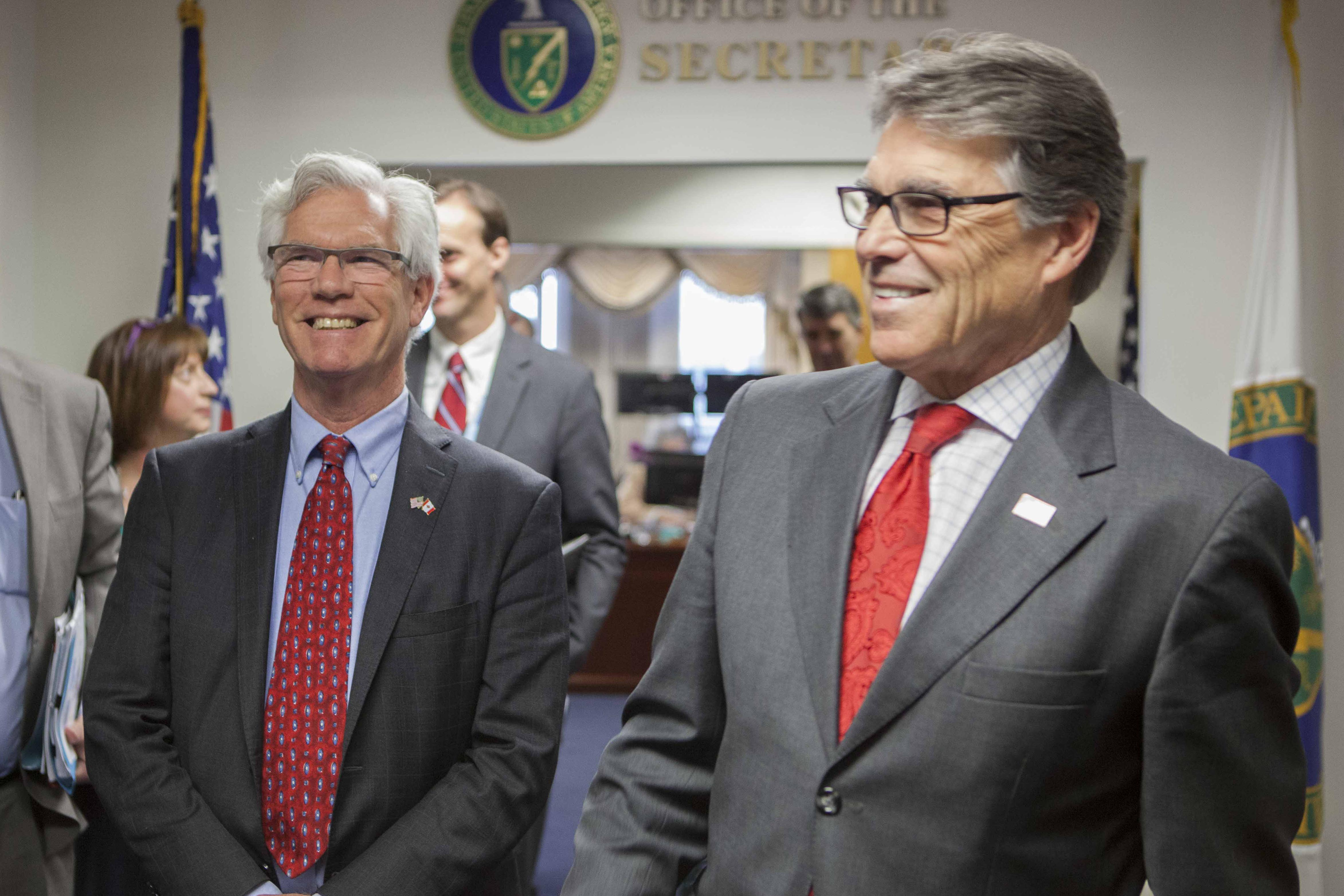 Secretary R. Perry meets with Jim Carr on March 30, 2017.